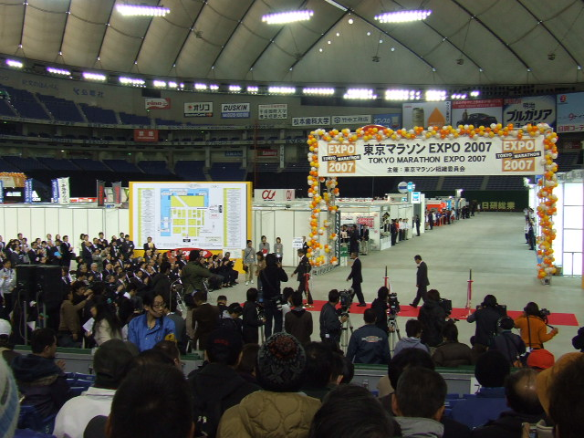 〝Tokyo Marathon EXPO 2007〟,Tokyo,Japan